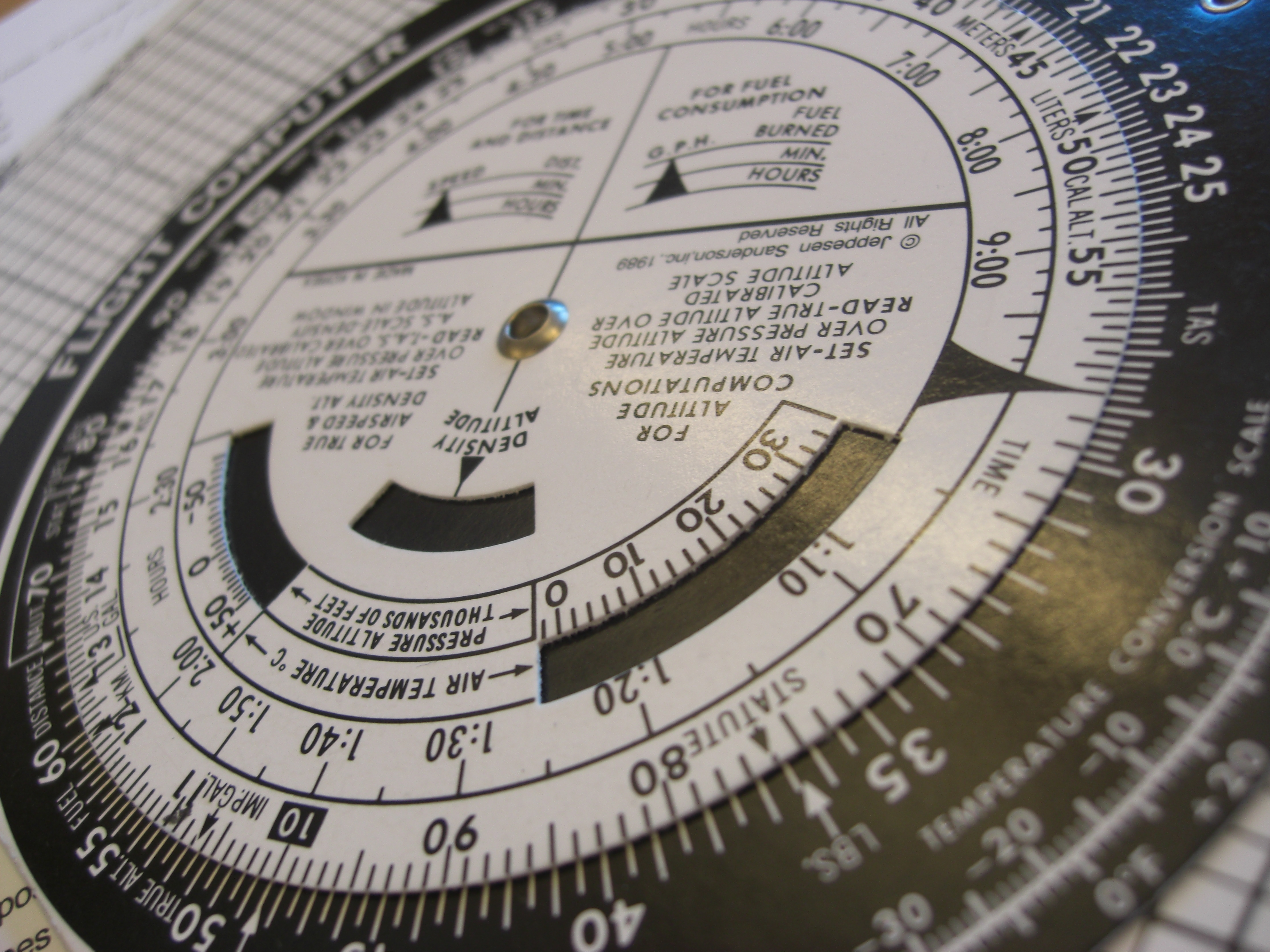 e6b navigation computer aviation flight training planning